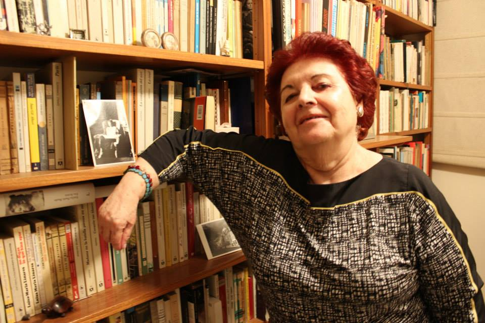 Venezuelan writer Elisa Lerner (August, 2013)